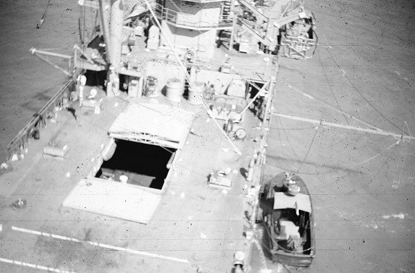 USS Harnett County (LST-821) in South Vietnamese waters, circa 1966-70. View of Harnett County's main deck from a UH-1B helicopter of Navy Helicopter Attack (Light) Squadron Three HA(L)-3 Seawolf. Official US Navy photo taken from